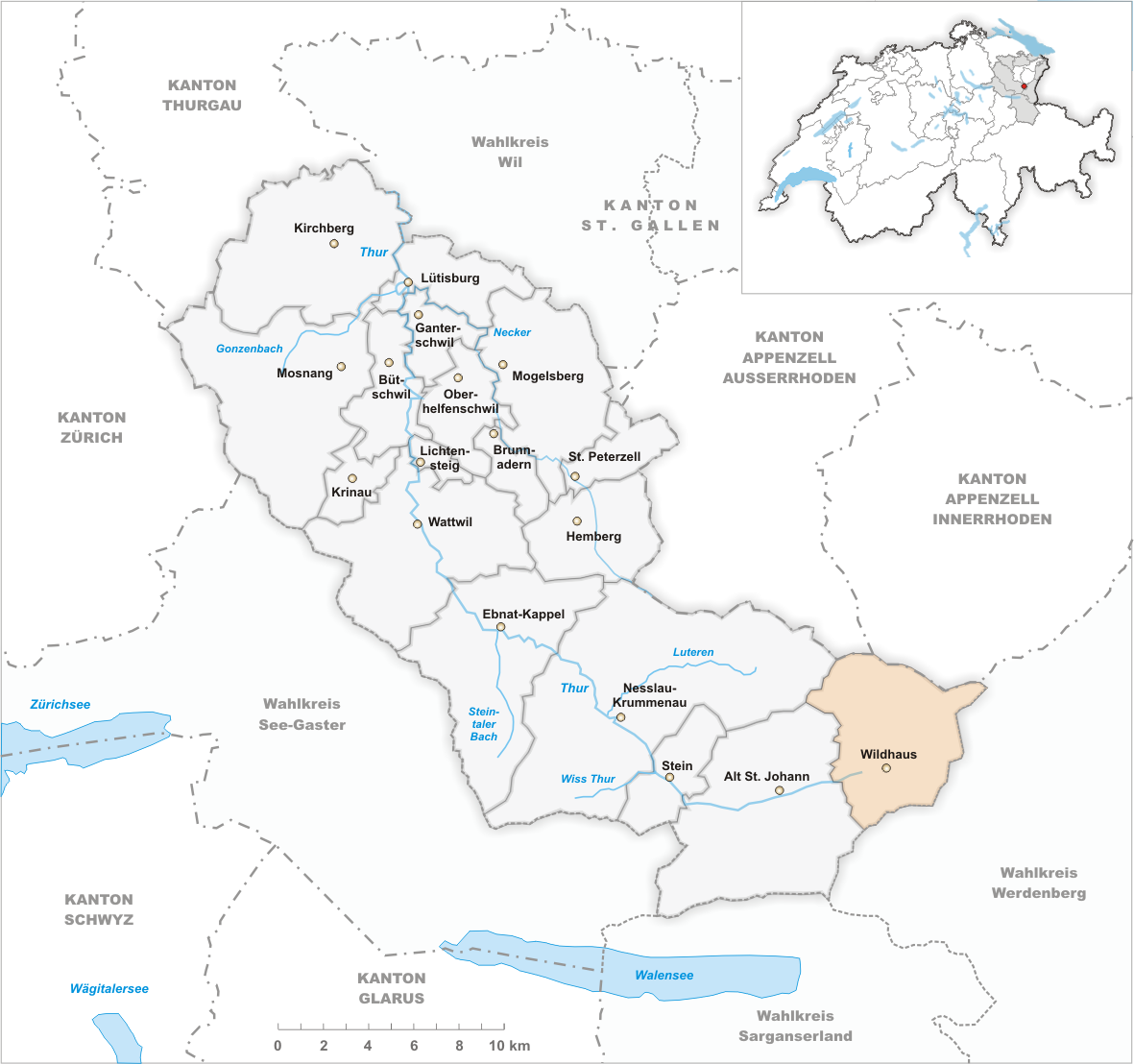 Municipality Wildhaus